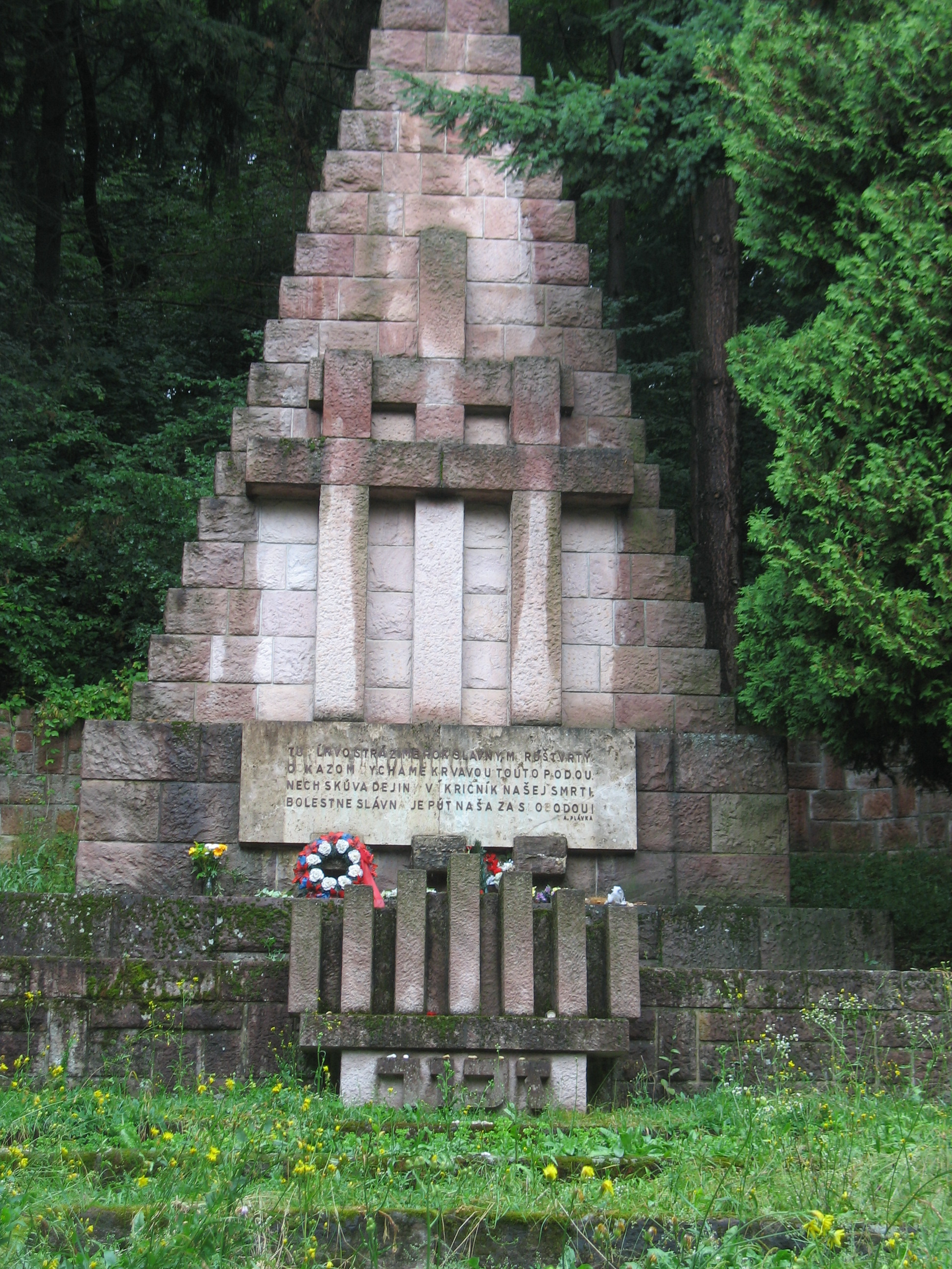 Kremnička Monument